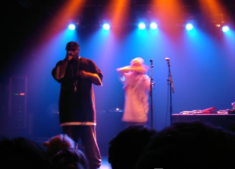 Rahzel and Mike Patton